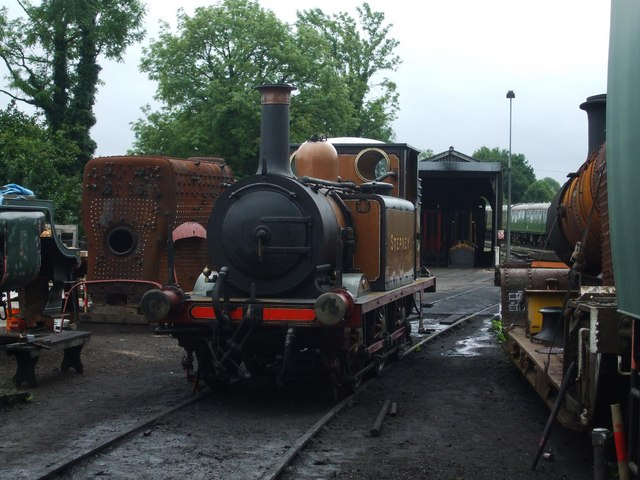 Bluebell favourite Stepney in front of the 1960's shed